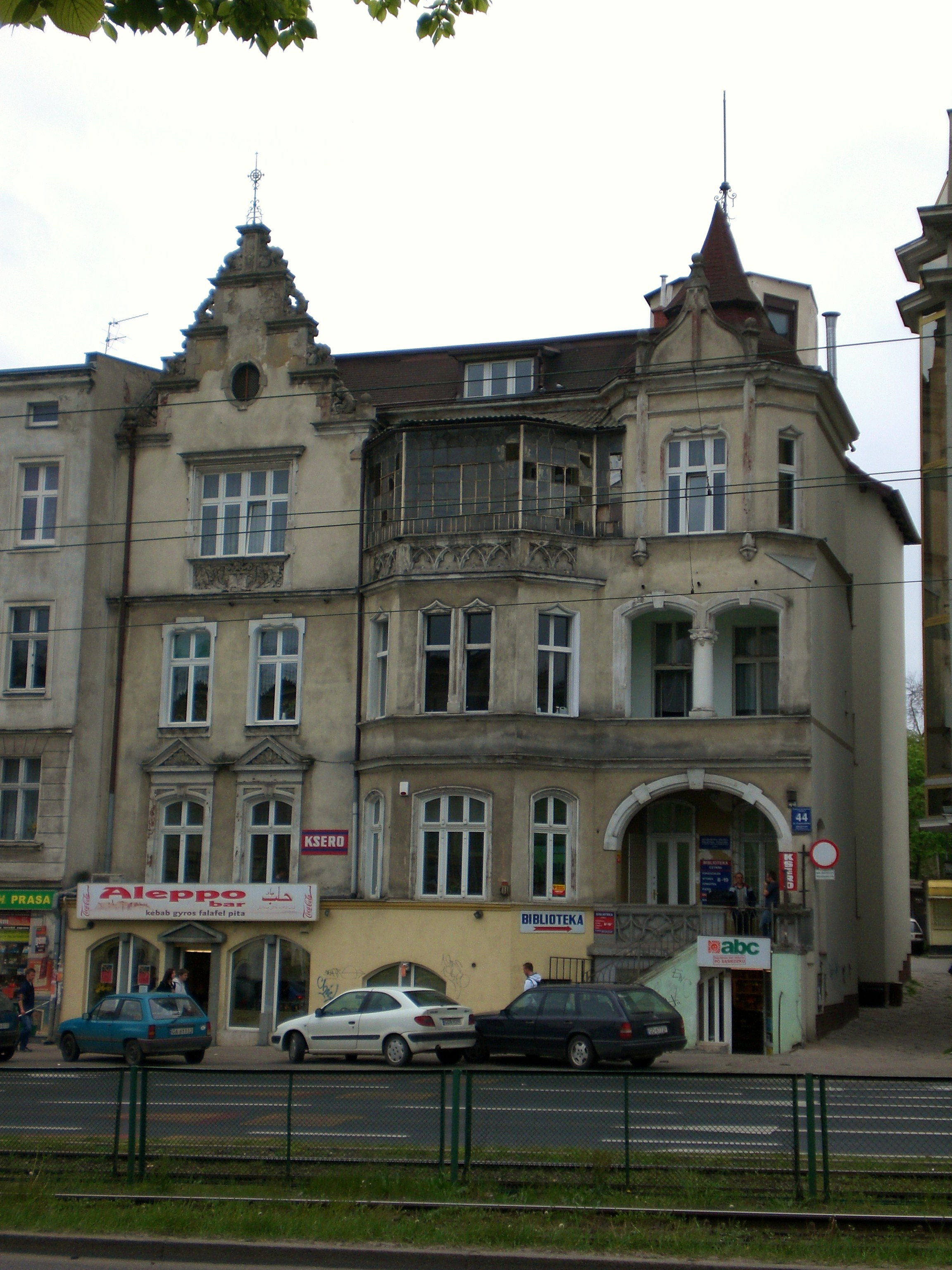 Gdańsk - a house in Grunwaldzka Avenue.